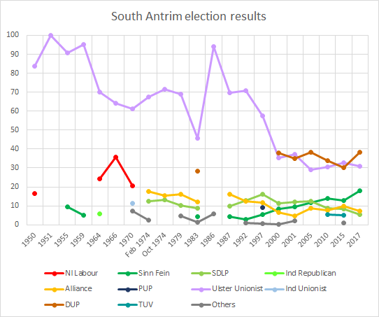 South Antrim election results